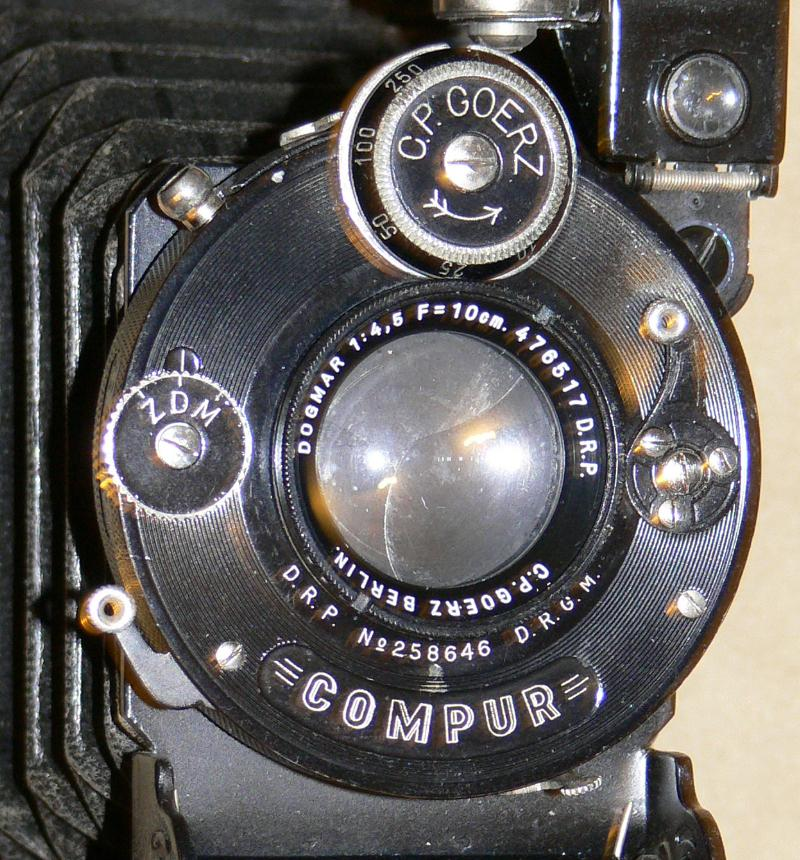 Compur shutter of Goerz Tenax folder camera